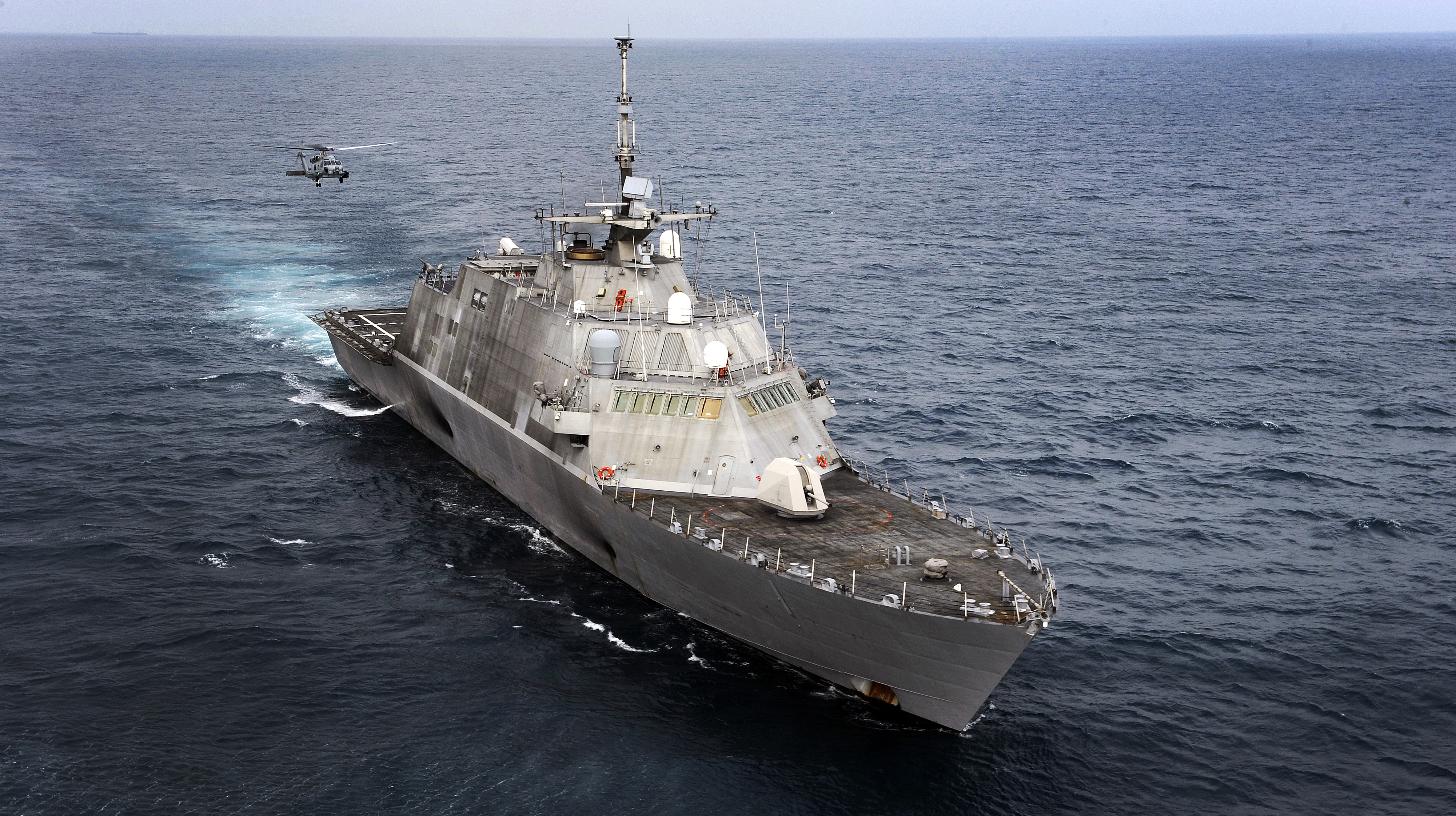 PACIFIC OCEAN (June 7, 2011) An MH-60R Sea Hawk helicopter assigned to Helicopter Maritime Strike Squadron (HSM) 77 prepares to land aboard the littoral combat ship USS Freedom (LCS 1). (U.S. Navy photo by Mass Communication 2nd Class Aaron Burden/Released)